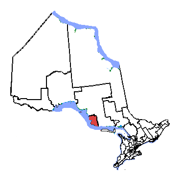 Map of the Sault Ste. Marie electoral district. Based on Earl Andrew's maps, created by SimonP.